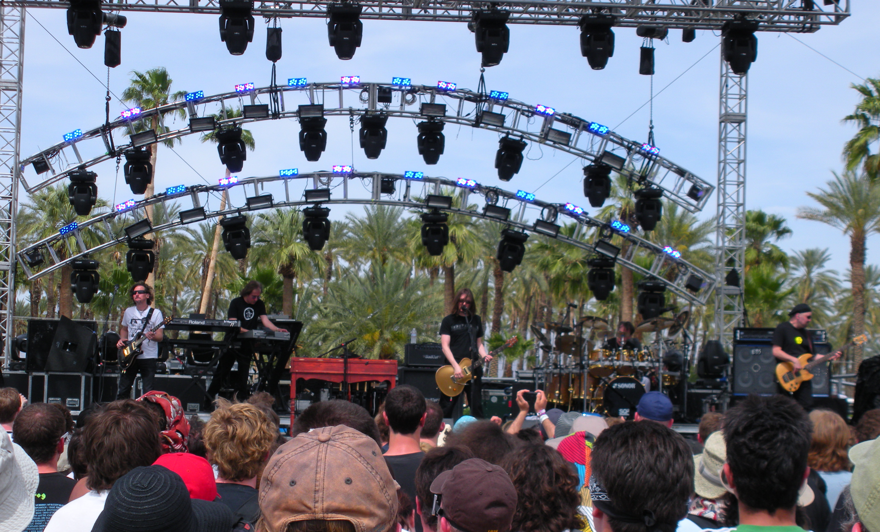 Porcupine Tree live from the Coachella Music Festival 2010.